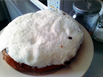 A Boston Bun